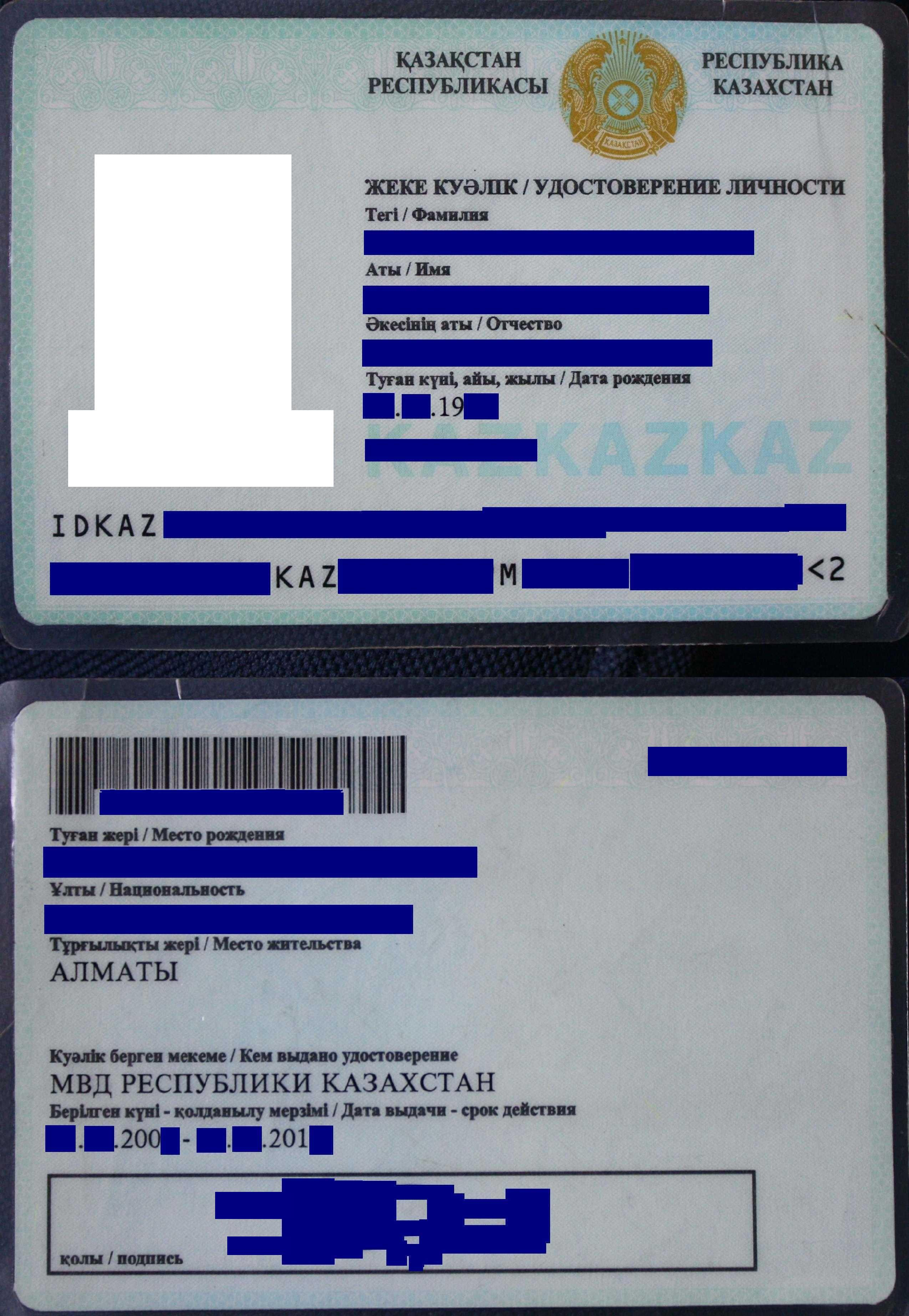 Kazakhstani ID-card. The personal data are deleted